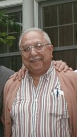 Jerry Haddad